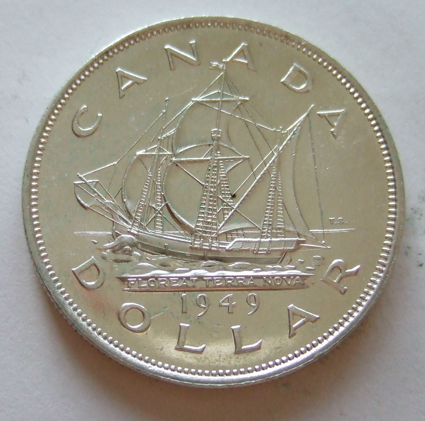 This coin was struck the year Newfoundland became Canada's tenth province in 1949.